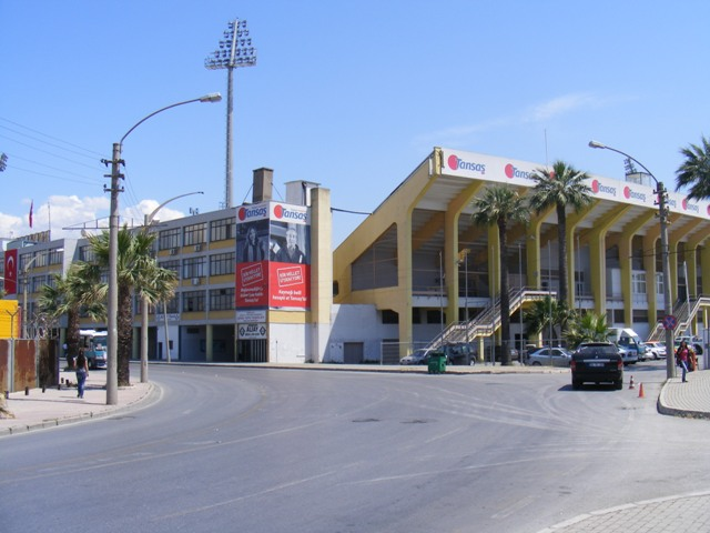 An outside view of Alsancak Stadium, located in Alsancak district of the city of Izmir, western coast city of Turkey.